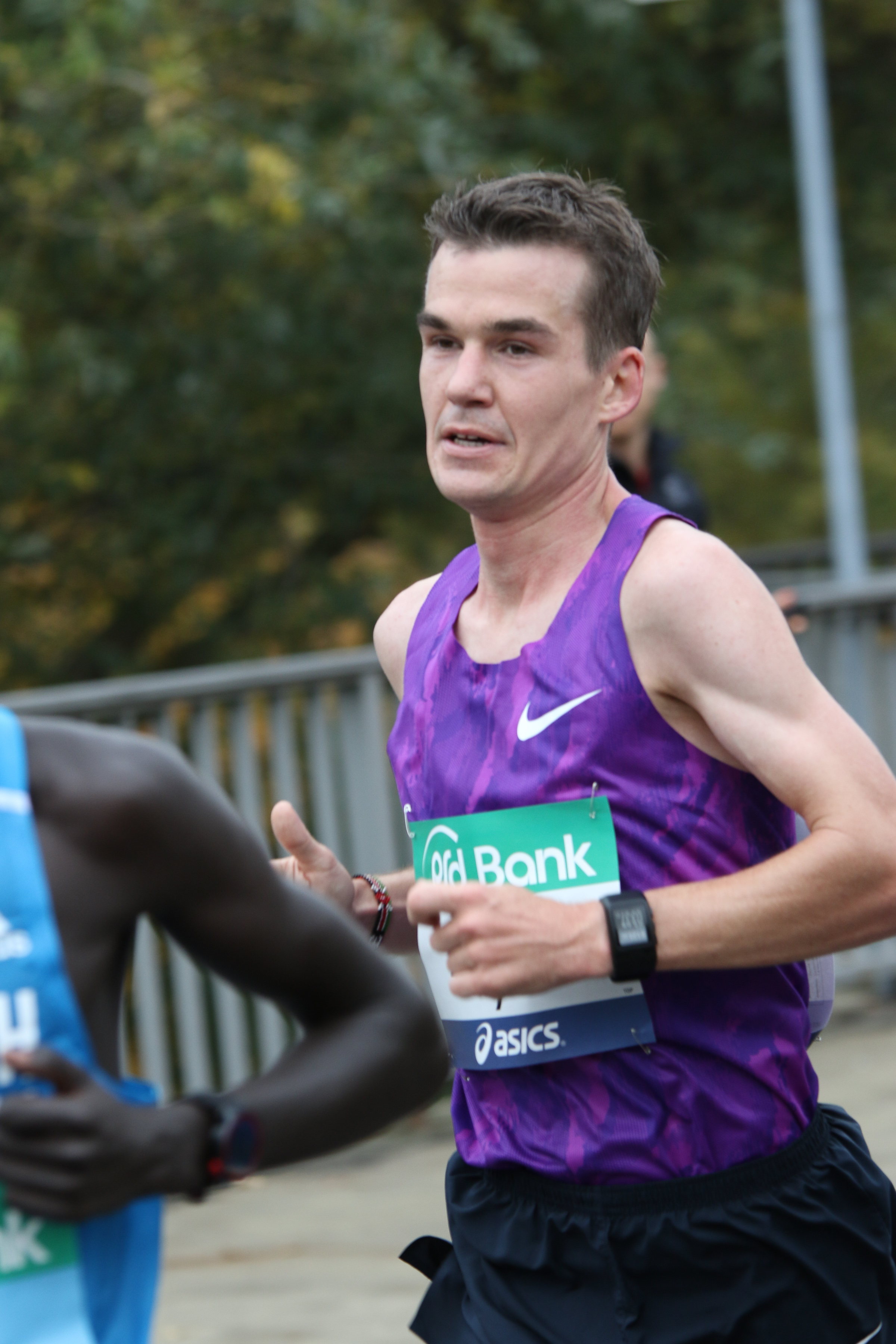 Frankfurt Marathon 2015 Old Nidda Bridge, Frankfurt-Nied, Arne Gabius